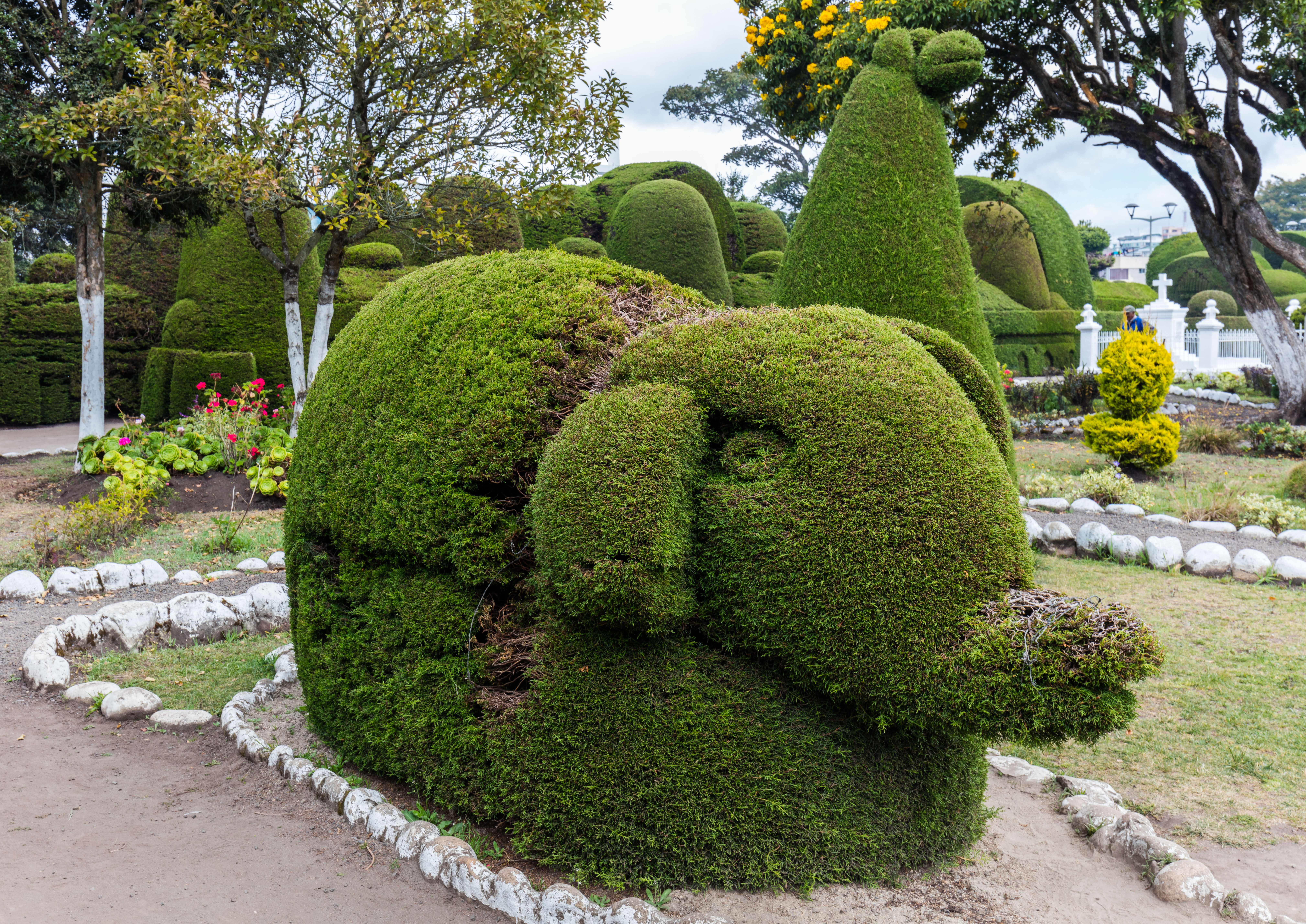 Cemetery, Tulcán, Ecuador